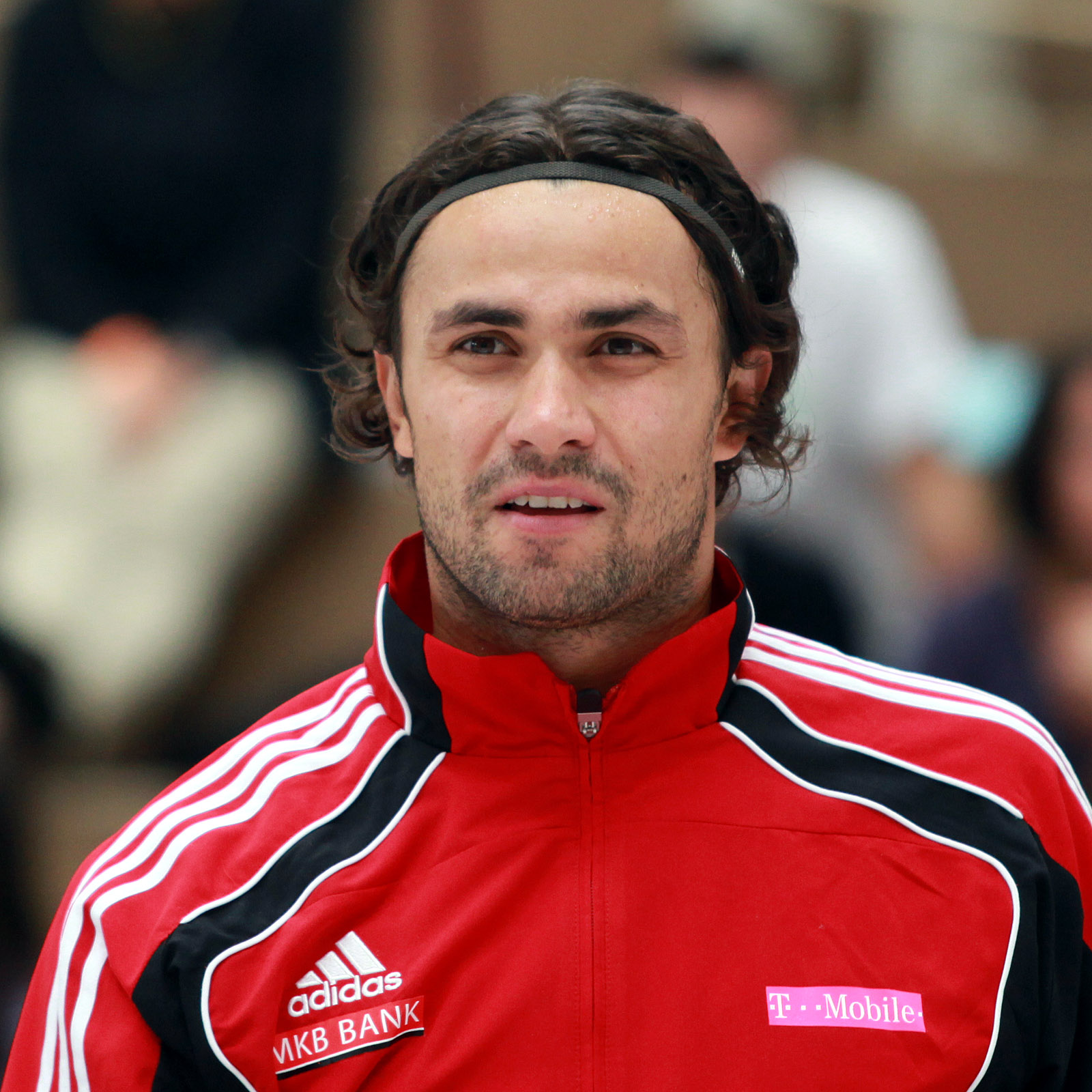 Nikola Eklemović, Hungarian handball player, on August 14th, 2010 in Ehingen (Germany), during the Schlecker Cup 2010.